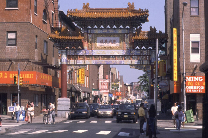 Chinatown district of Philadelphia, Pennsylvania.